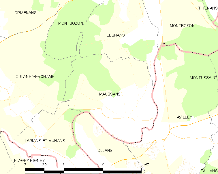 Map of French municipality